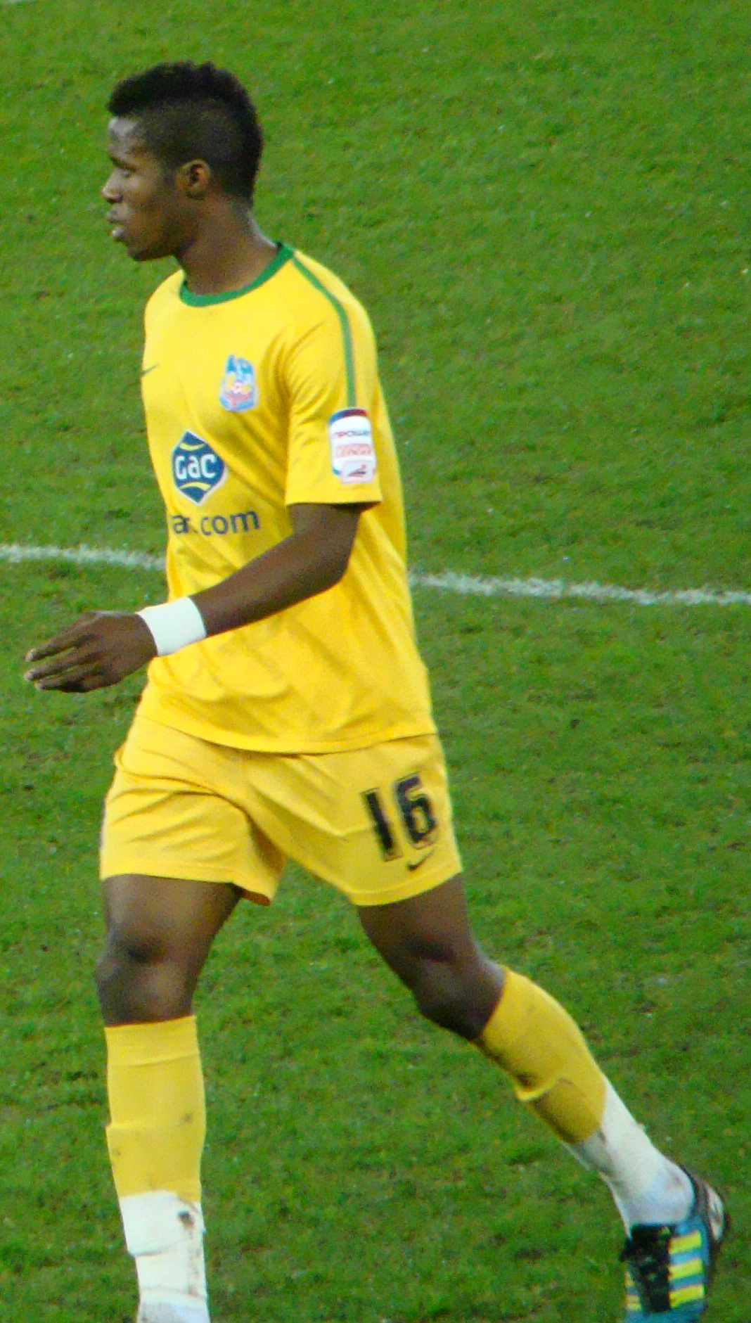 Wilfried Zaha playing for Crystal Palace in the Football League Cup Semi-final against Cardiff City.